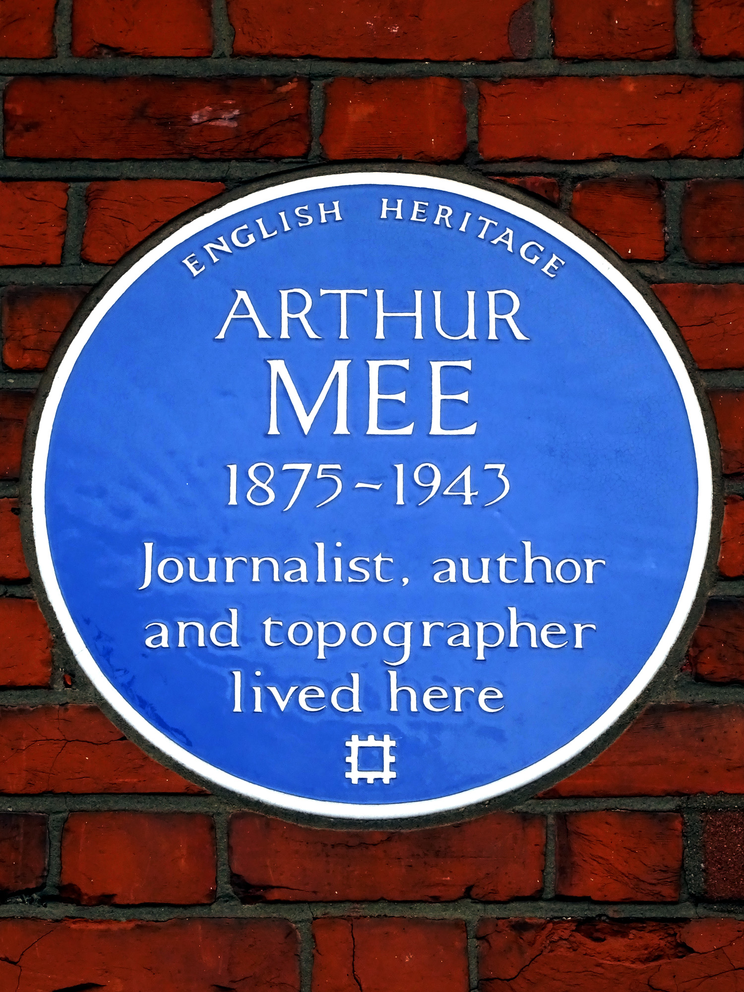 Blue plaque erected in 1991 by English Heritage at 27 Lanercost Road, Tulse Hill, London SW2 4DP, London Borough of Lambeth